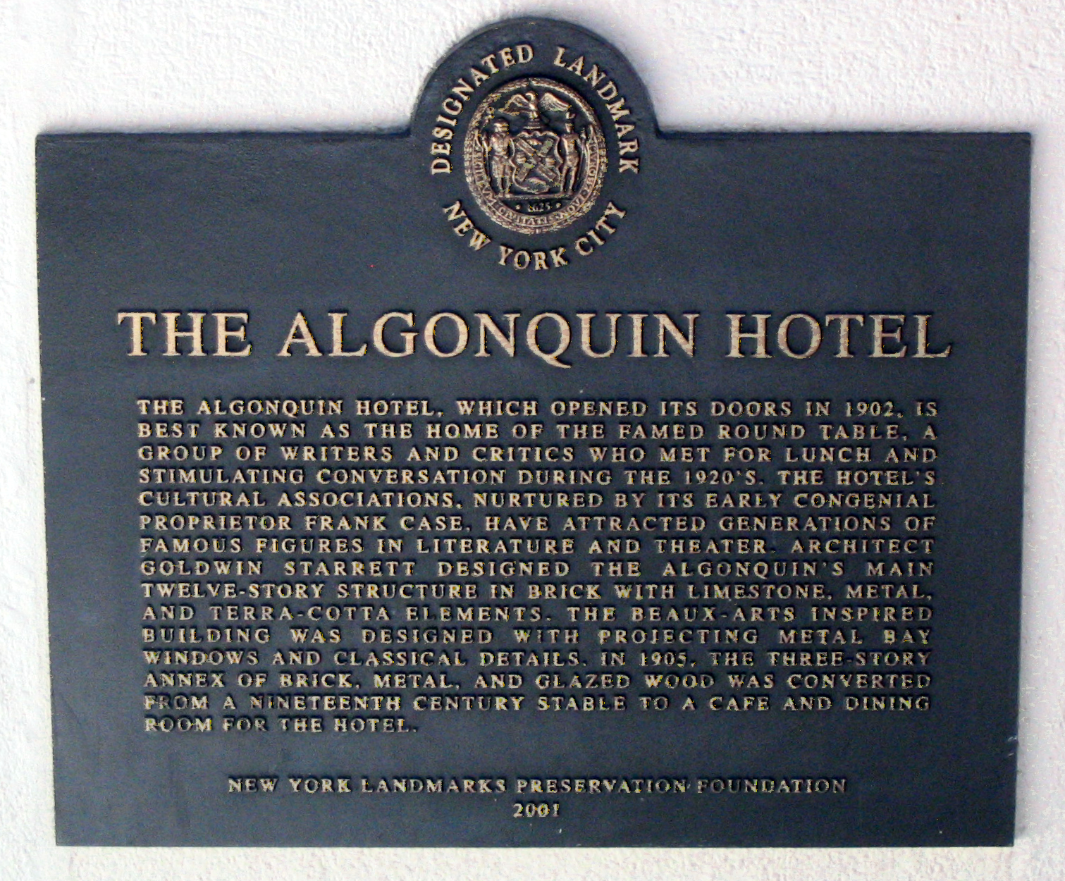 Plaque from the New York Landmarks Preservation Foundation at the Algonquin Hotel in Manhattan.